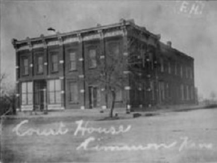 The Old Gray County Courthouse in Cimarron, Kansas, sometime between 1905 and 1909.